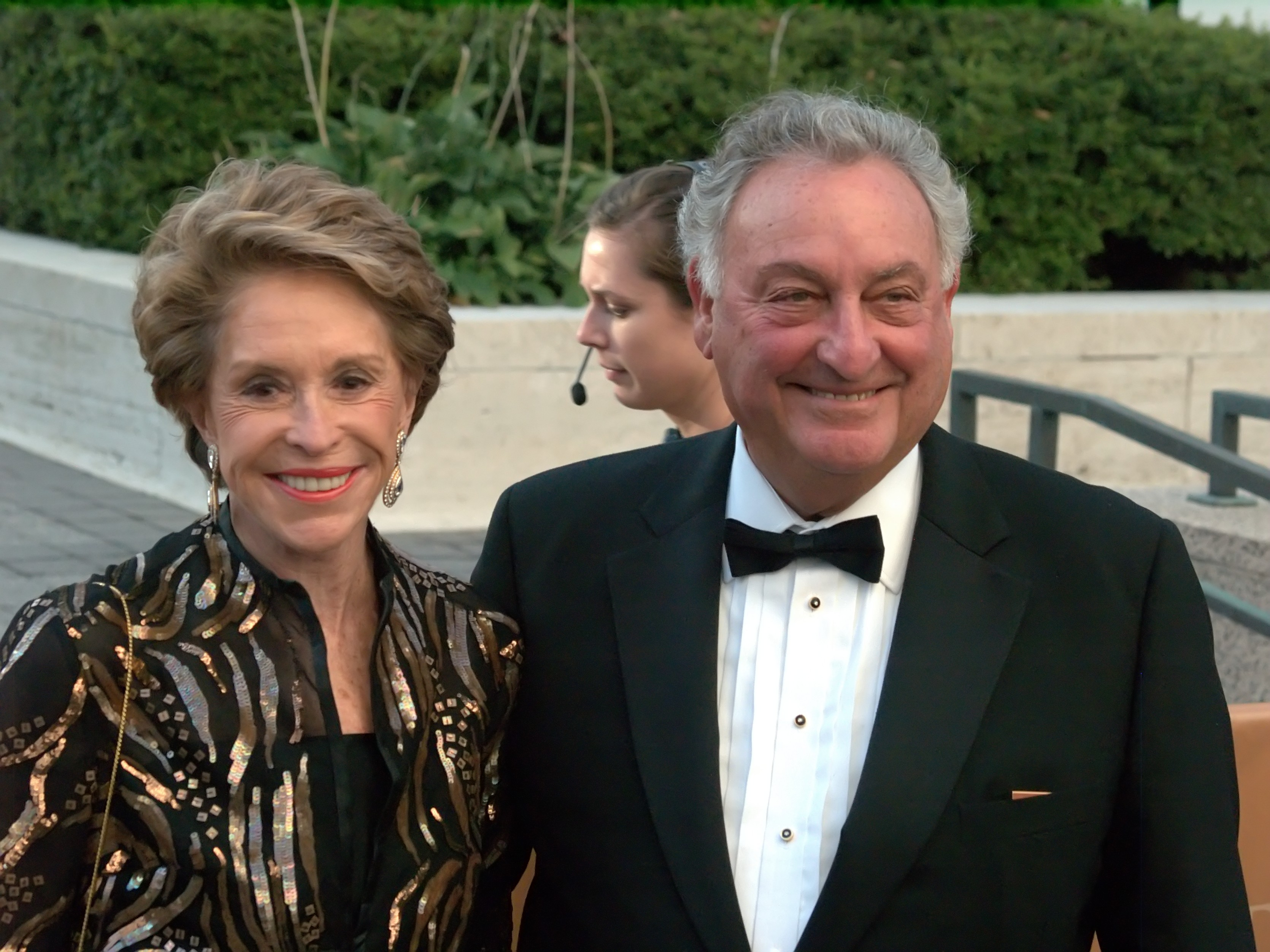 Joan Weill and Sanford Weill at the 2009 premiere of the Metropolitan Opera in New York City. Photographer's blog post about event and photograph.